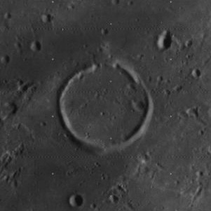 Hortensius E crater, on the moon.